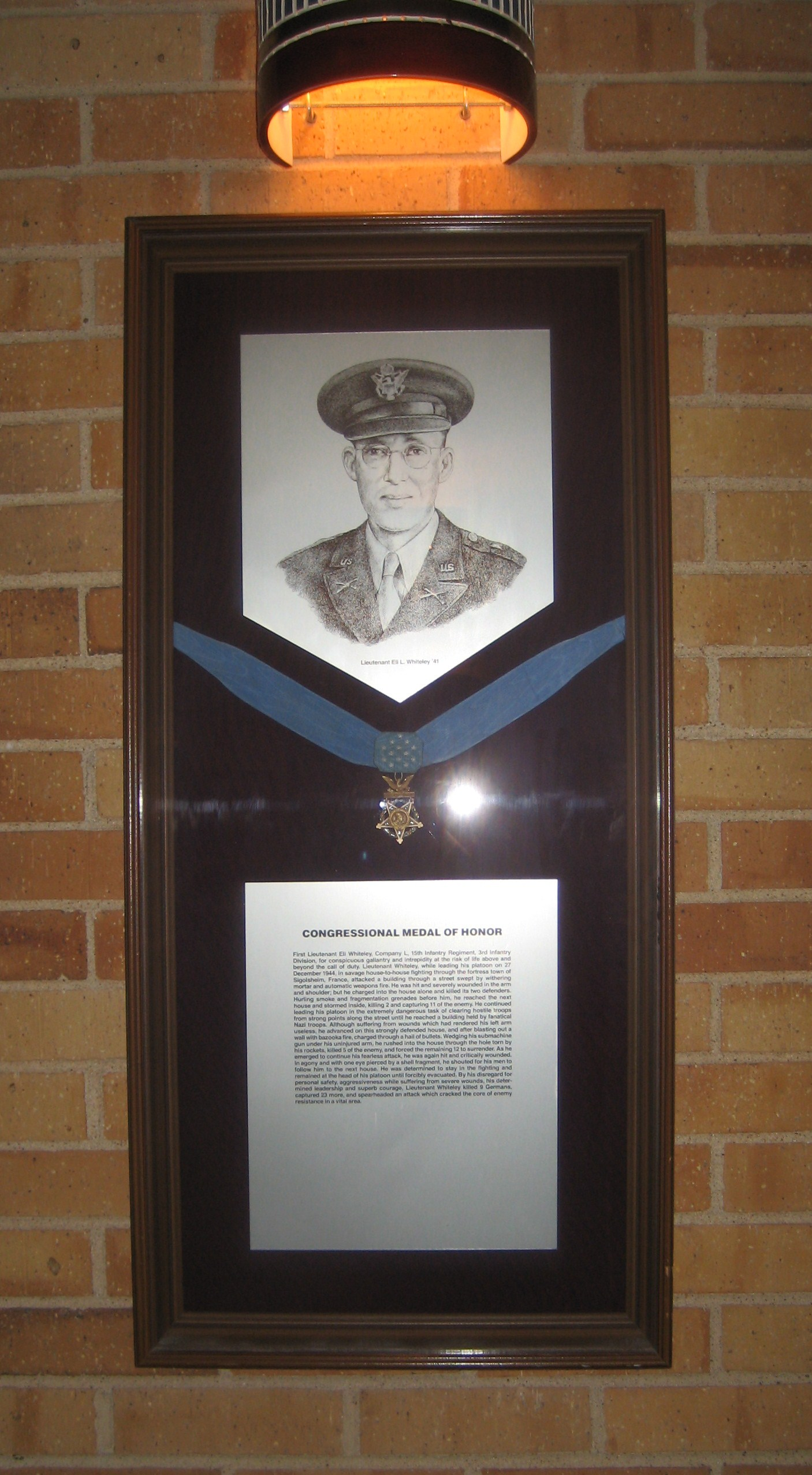 Eli L. Whiteley's specimen Medal of Honor, a picture of him, and his citation on display at the Memorial Student Center at Texas A&M University